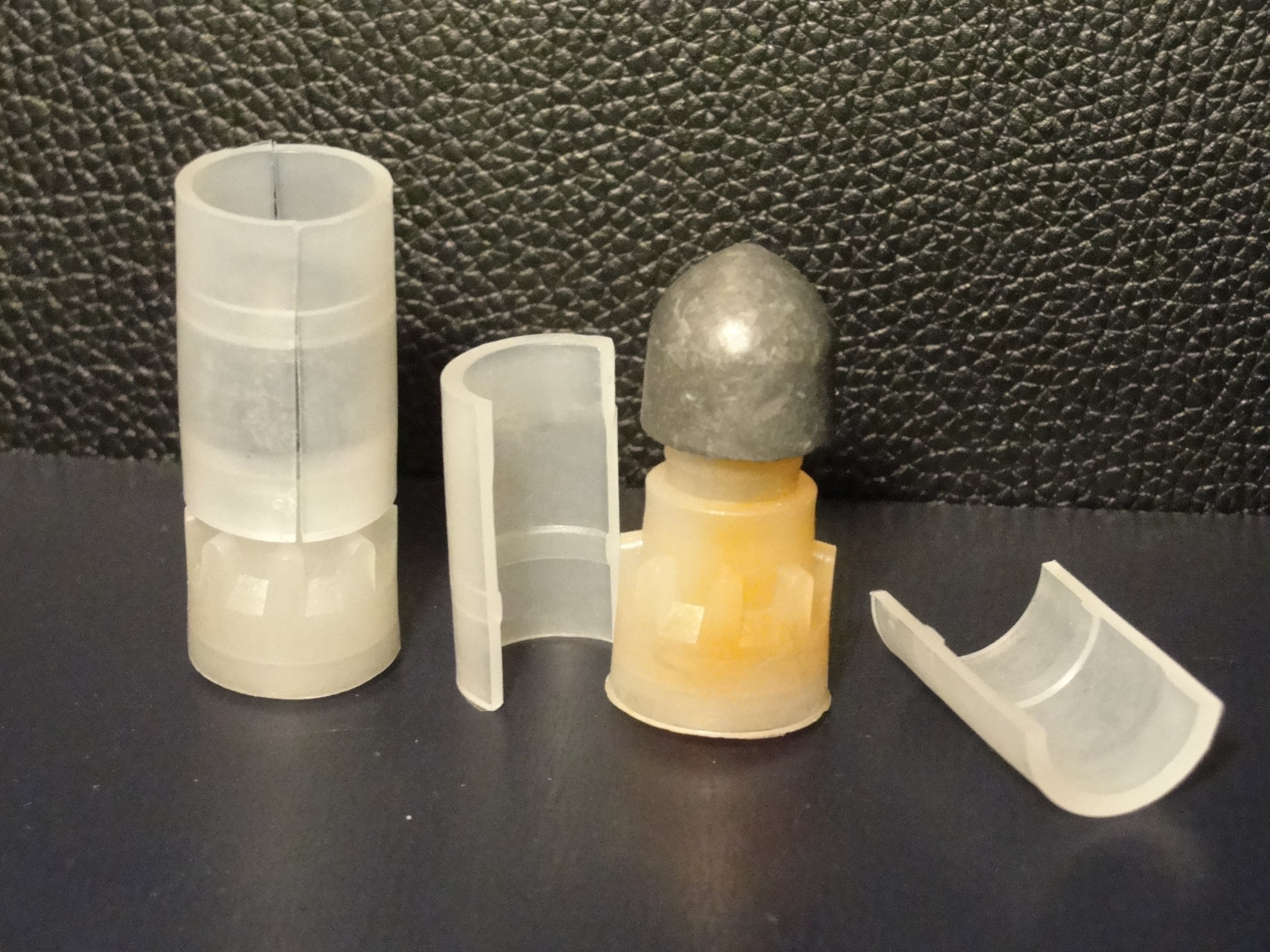 16th Bore Poleva Slugs, Russia